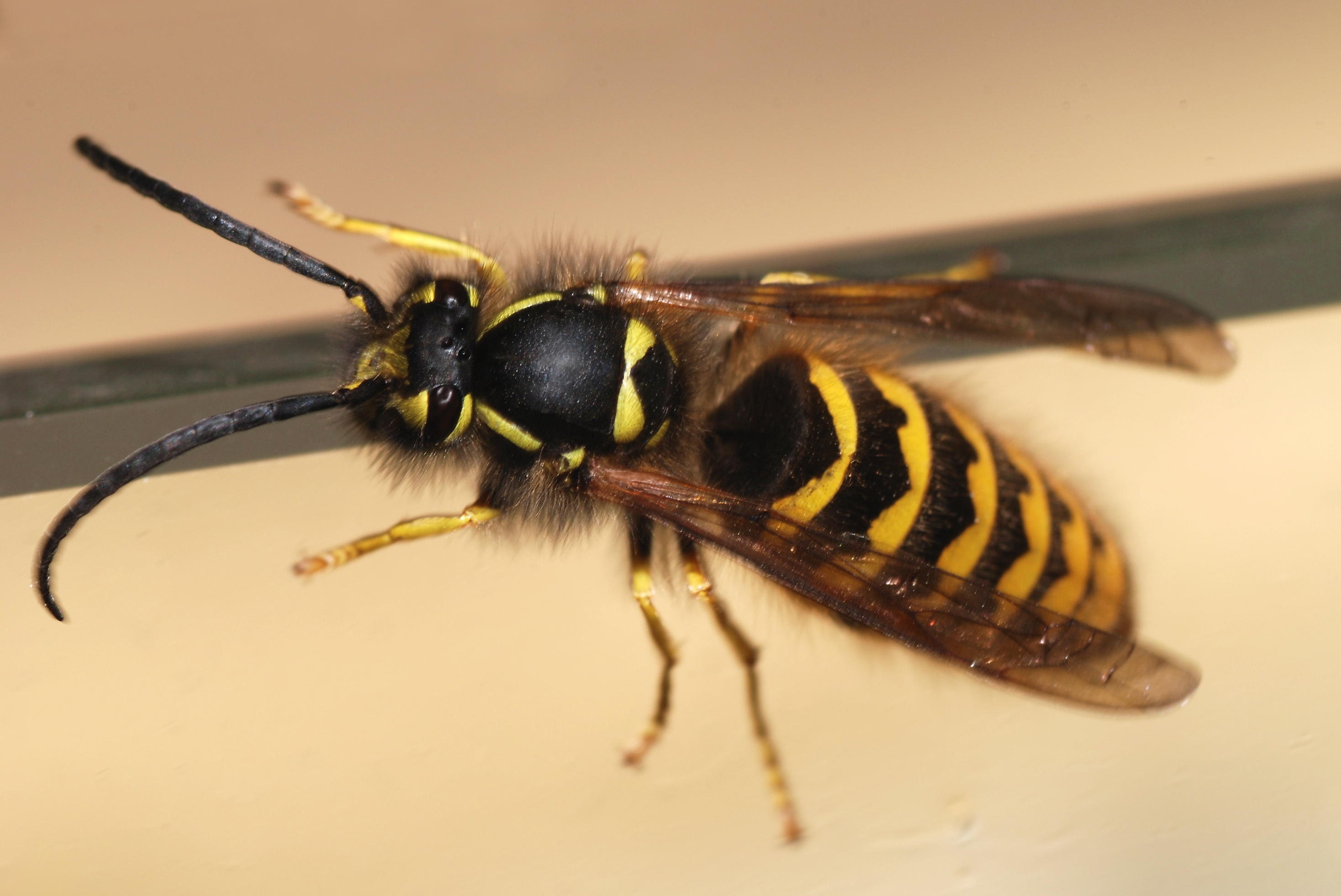 A Yellow-jacket (Vespula vulgaris)